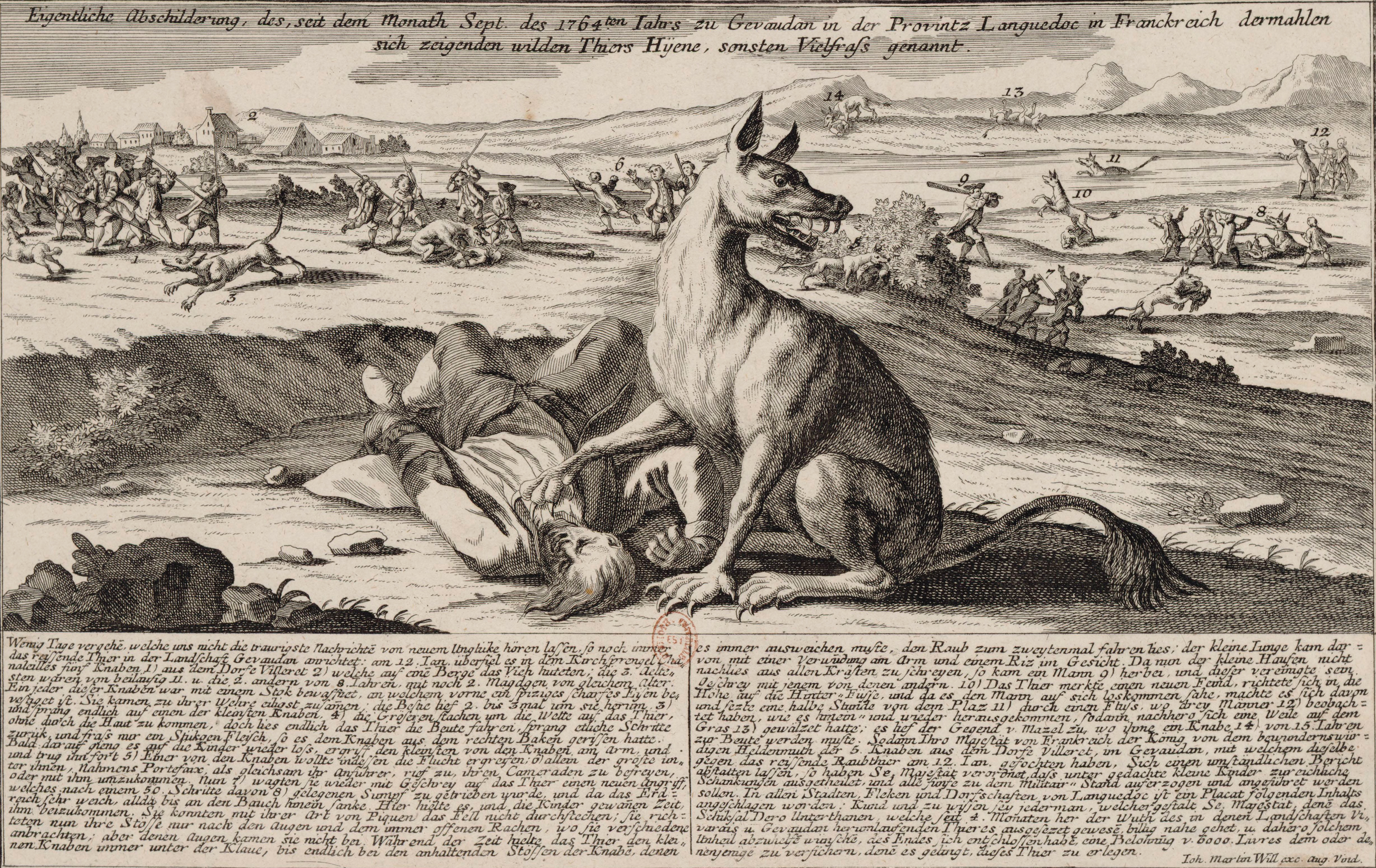 Engraving depicting the Beast of Gévaudan.